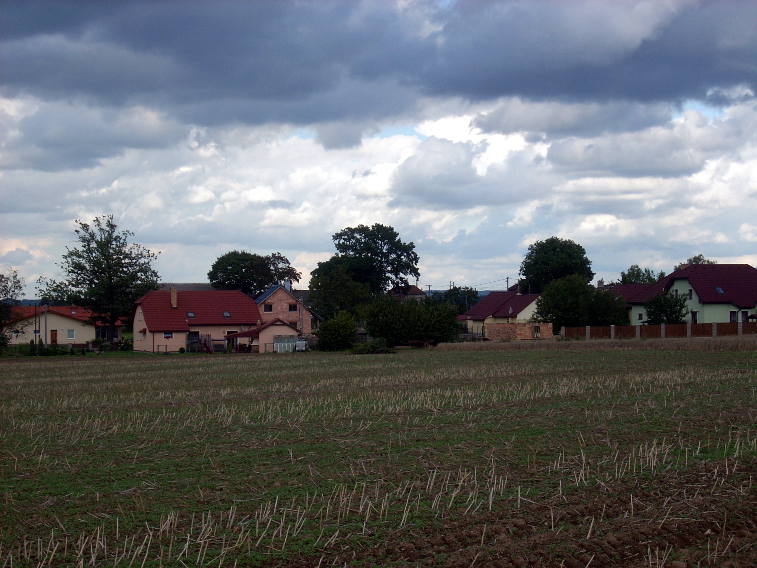 Heroltice, Jihlava